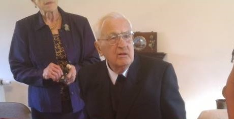 István Geosits (Štefan Geošić) b. 1927, Burgenland Croatian Catholic priest, writer, translator of the Bible